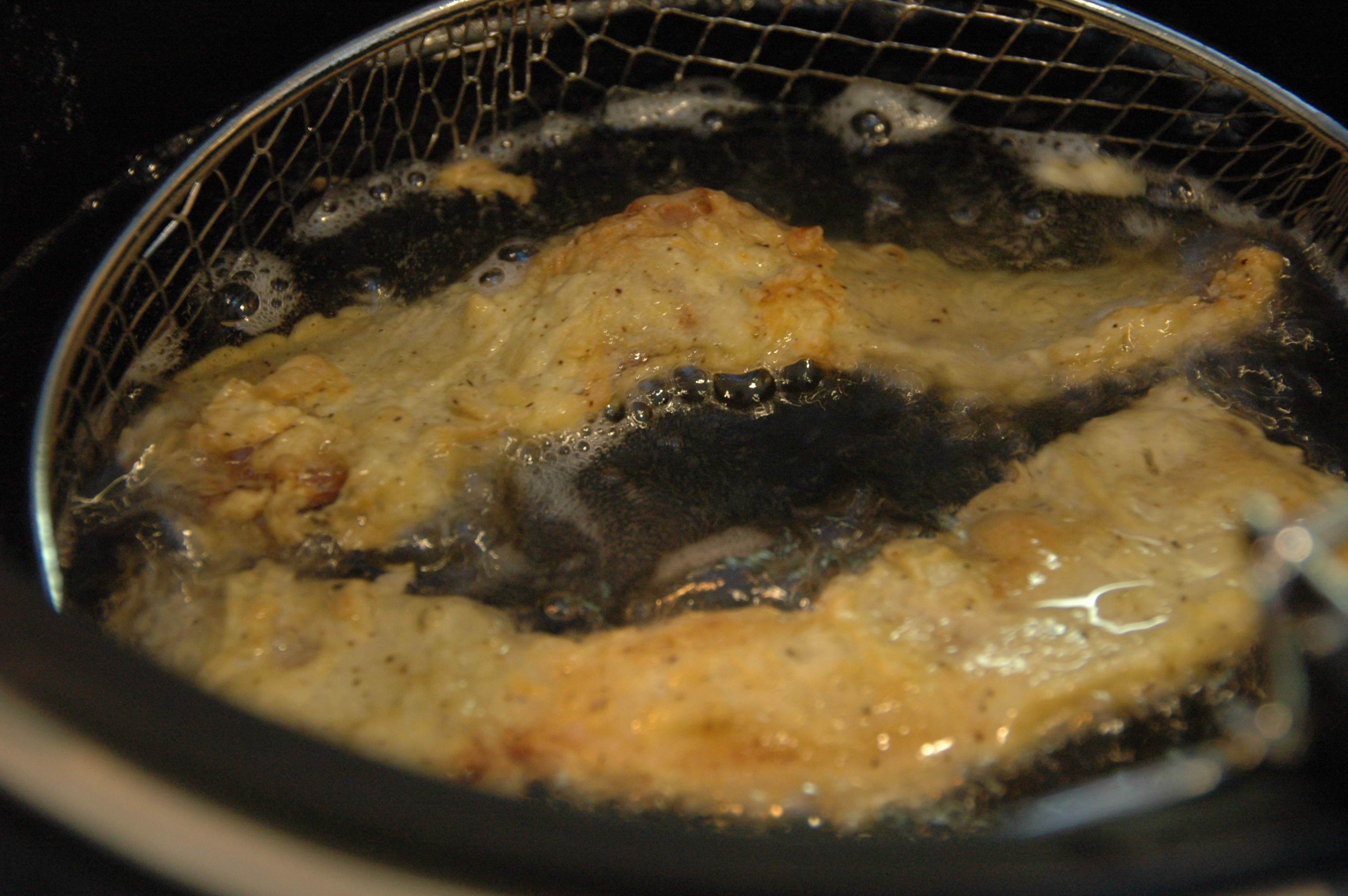 Homemade chicken fried bacon from 2007, VirtualErn (Flikr), attribution required Source